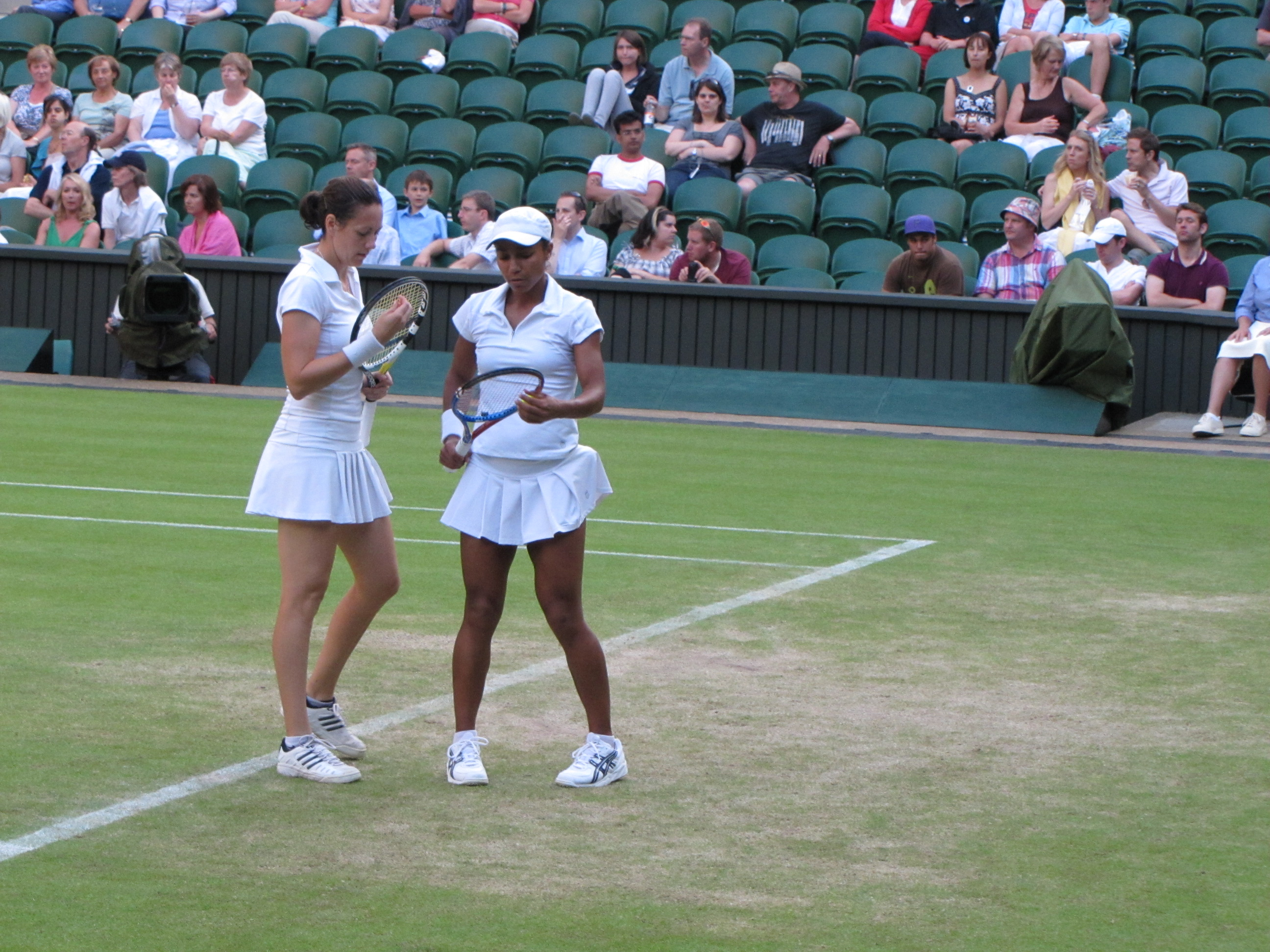 Sarah Borwell, Raquel Kops-Jones, 2010 Wimbledon Championships